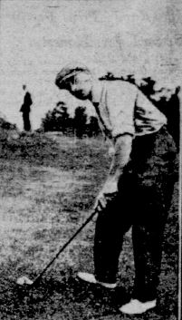 Herbert Strong of Apawamis Golf Club, Rye, New York in 1908. Photo of Strong preparing to hit a chip shot, as it appeared in the New York Daily Tribune issue of August 10, 1908.